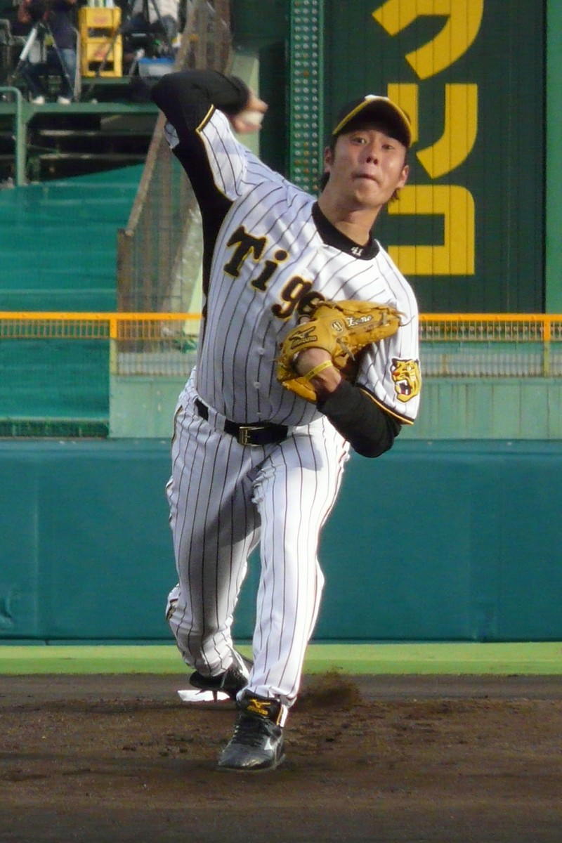 Keiji Uezono, pitcher of the Hanshin Tigers, at Hanshin Koshien Stadium.